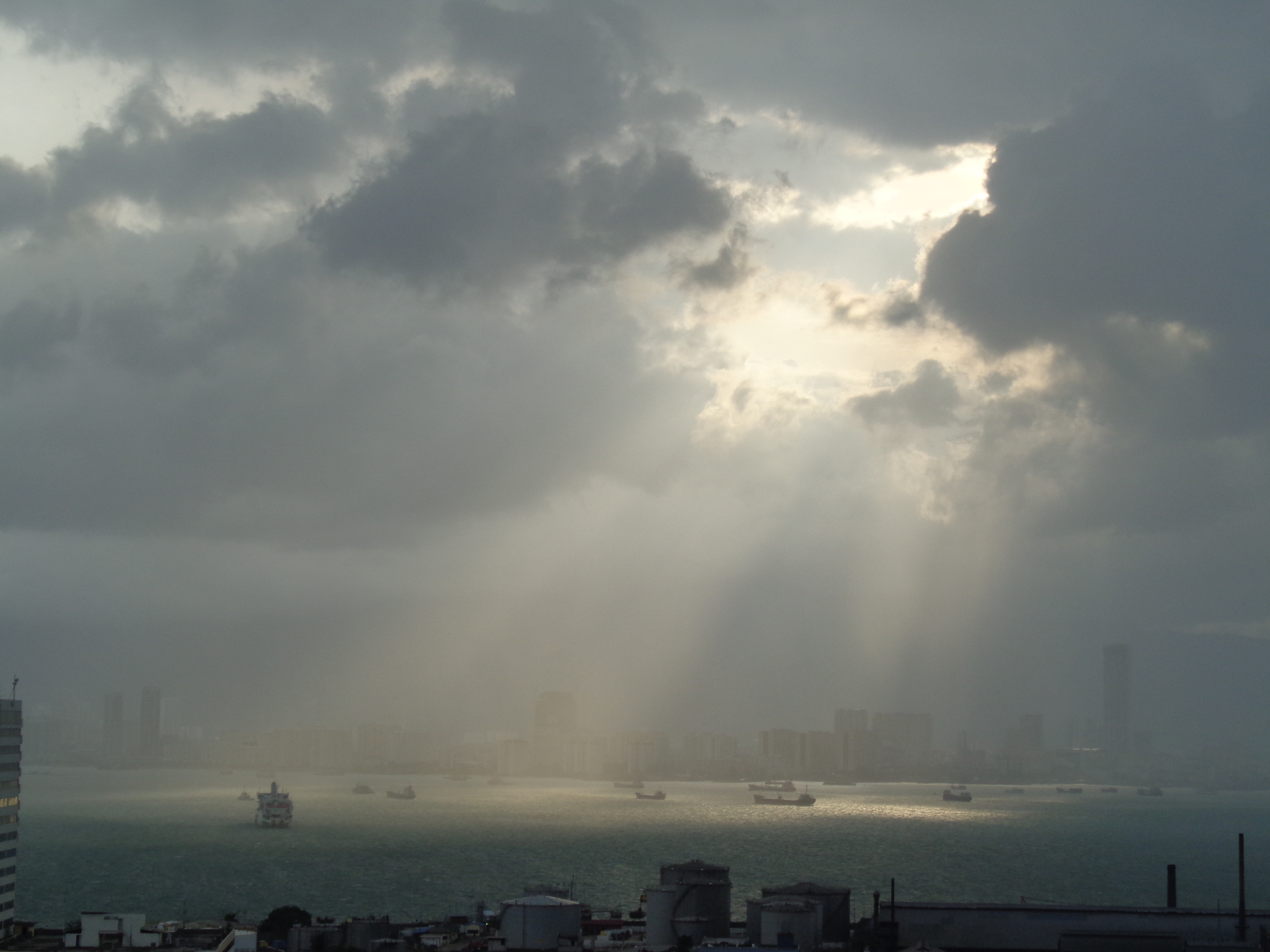 Storm at Penang Island. Taken on June 2016